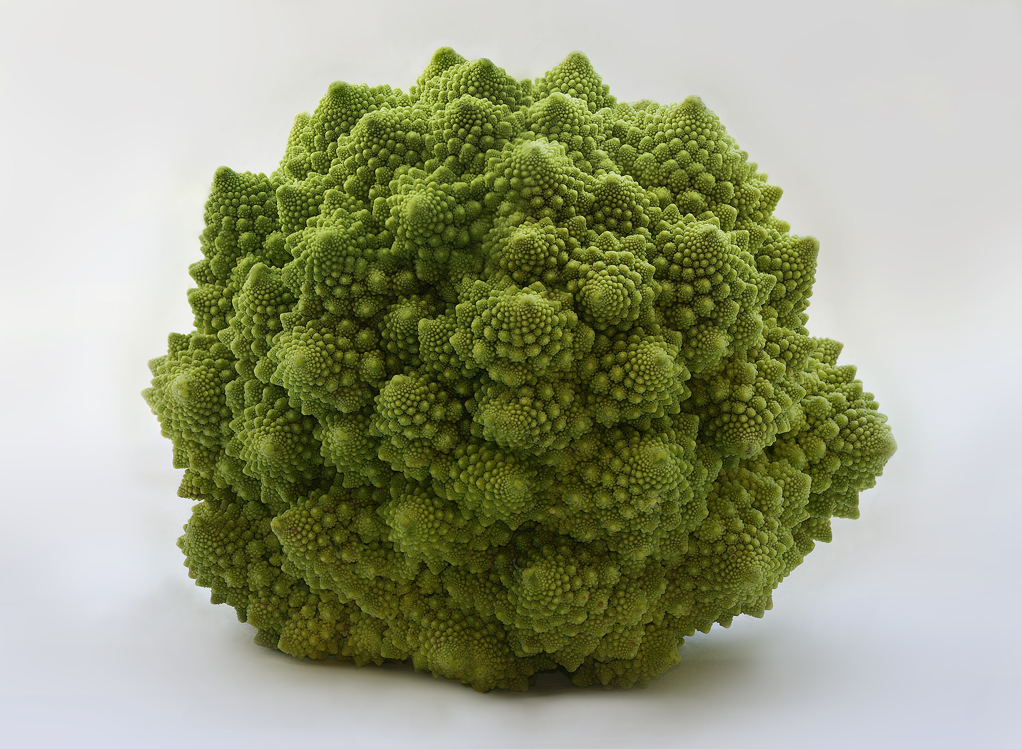 Romanesco broccoli or fractal broccoli is an edible flower of the species Brassica oleracea and a variant form of cauliflower.